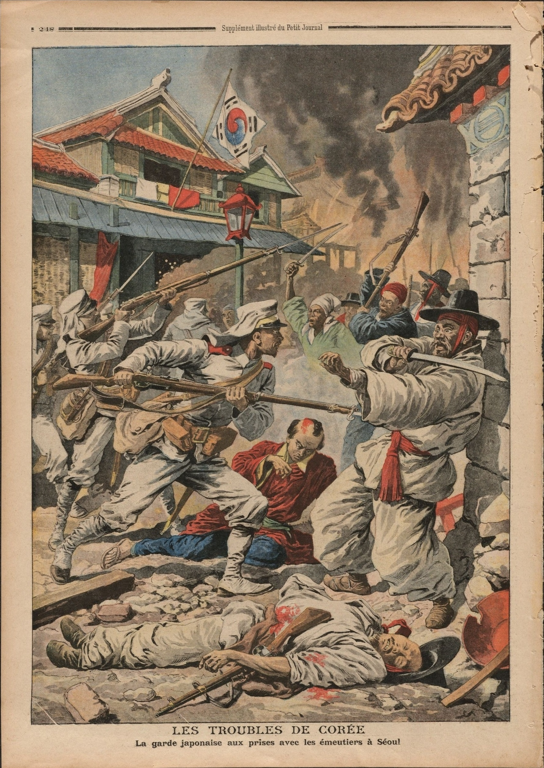 "TROUBLES OF KOREA". Japanese soldiers fight against Koreans.